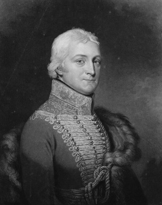 Le lieutenant-général britannique Robert Ballard Long. Il participe à la guerre de la péninsule Ibérique de 1808 à 1813, et se distingue à la bataille de Campo Maior le 25 mars 1811.